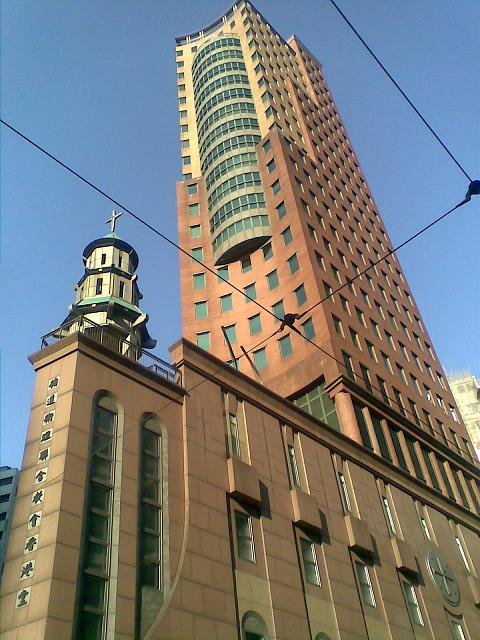 Wan Chai, Methodist House中文（香港）: 灣仔, 循道衛理大廈